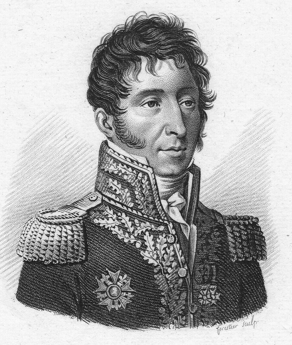 Black and white print of a man dressed in an early 1800s dark military coat elaborately trimmed with braid and with epaulettes on each shoulder. He has long sideburns on his clean-shaven face. He has a long head.